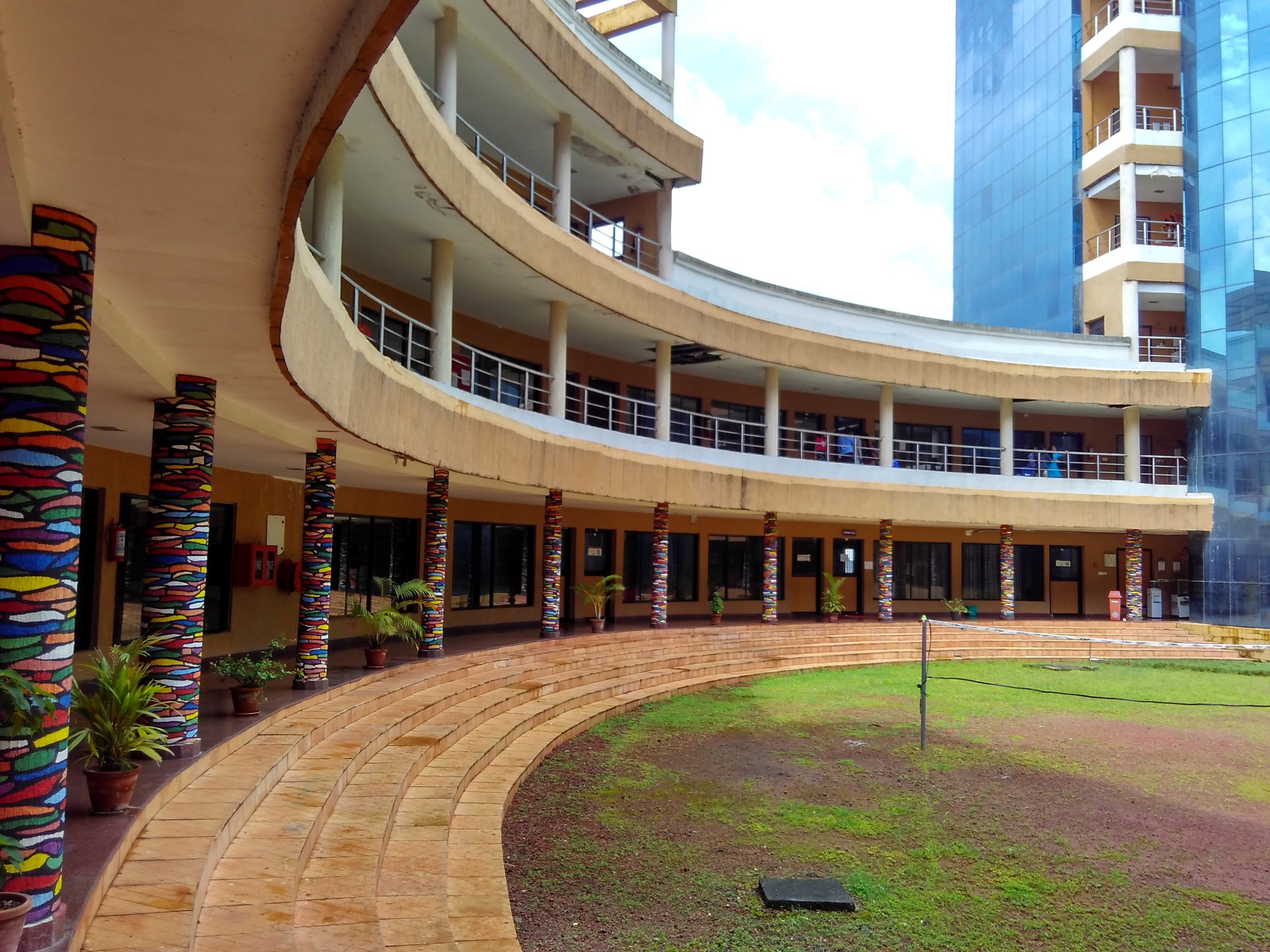 NIFT Kannur, India. The National Institute of Fashion Technology, Kannur campus. Photographed in August 2016